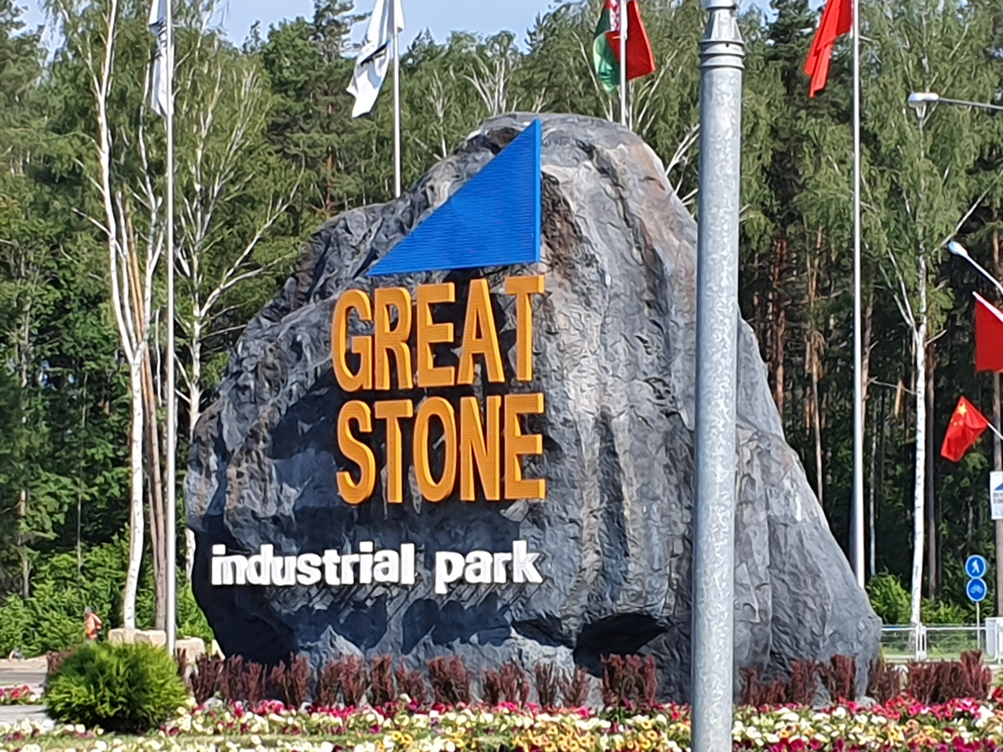 Great Stone China-Belarus industrial park near Minsk airport, Belarus